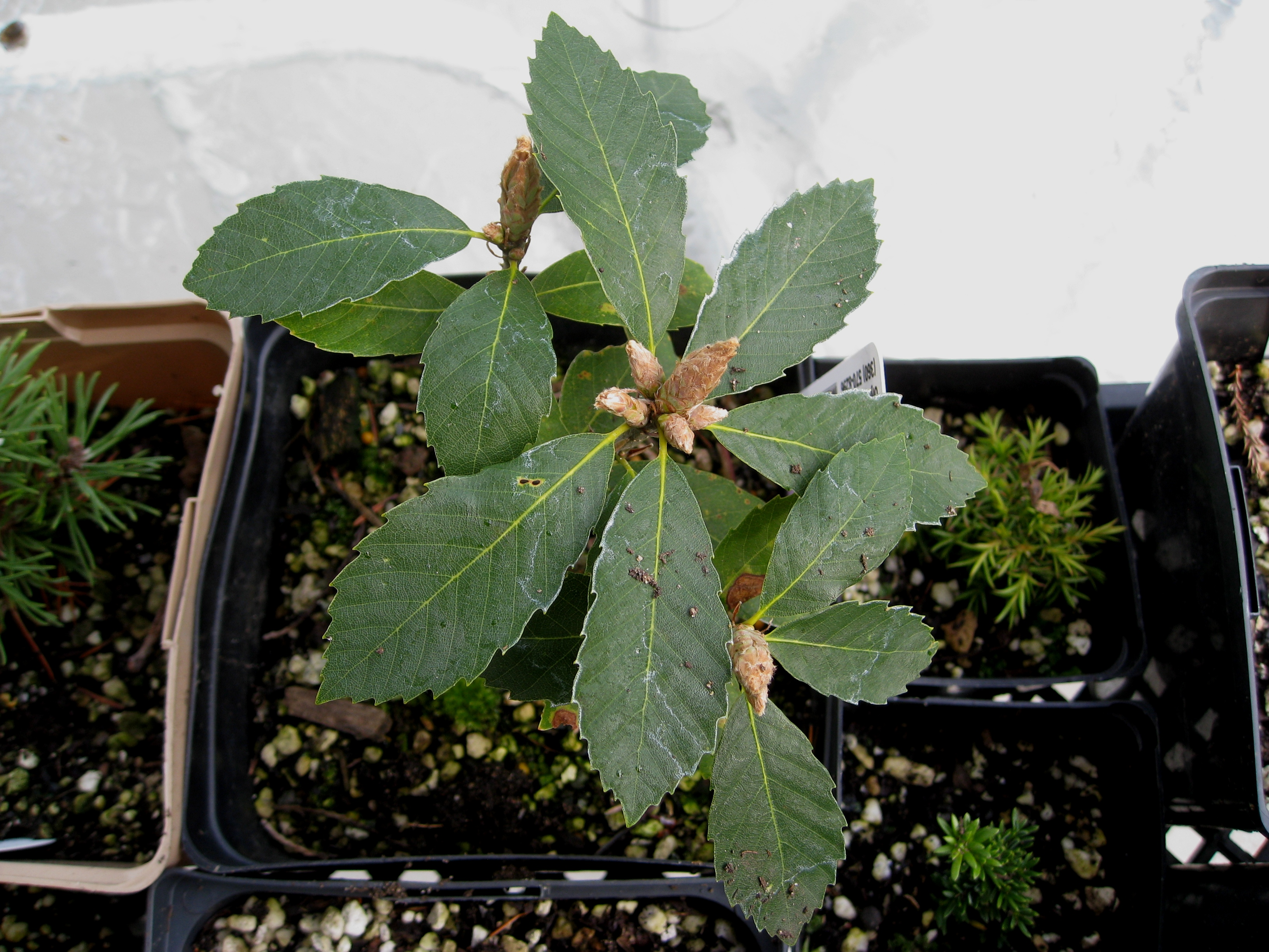 We went on garden tours and guess what - we bough some new plants for our garden. sea 041